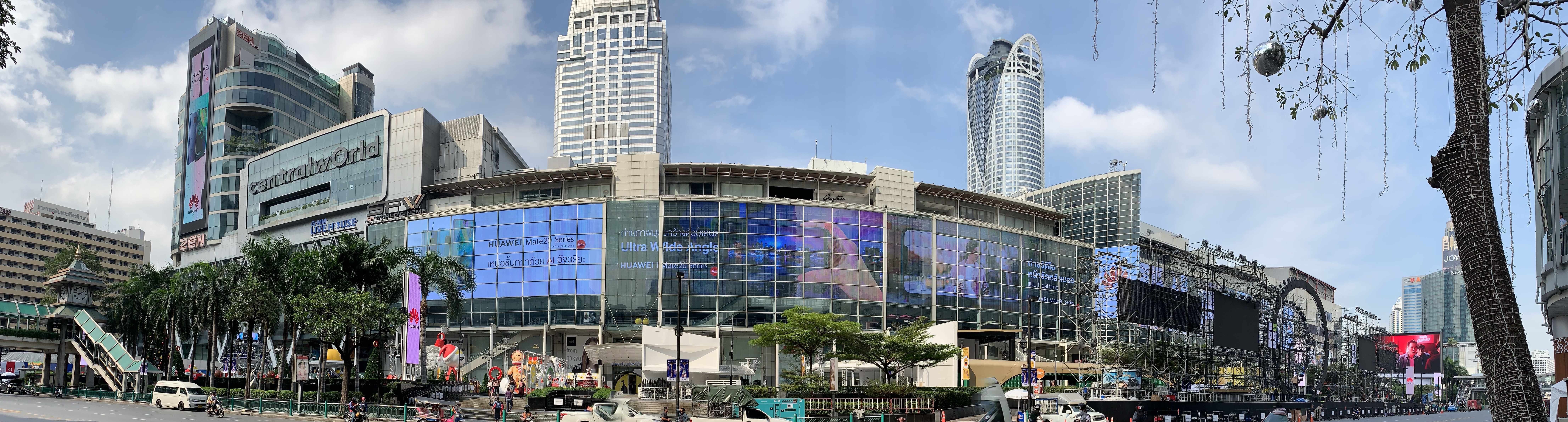 CentralwOrld (Thai: เซ็นทรัลเวิลด์, Styled as centralwOrld) is a shopping plaza and complex in Bangkok, Thailand.